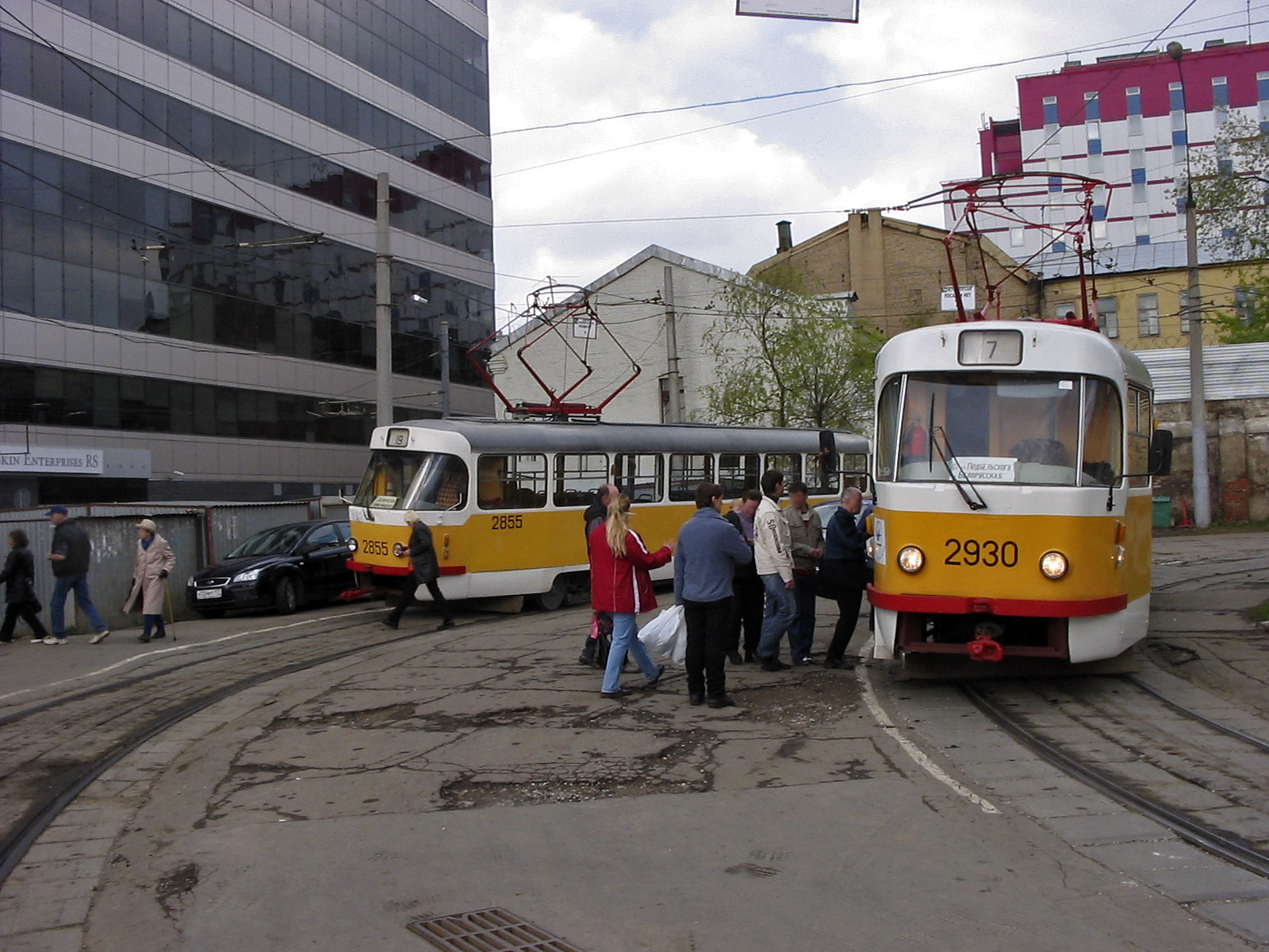 Moscow tram #19, 7 "Metro Belorusskaya" route terminal.